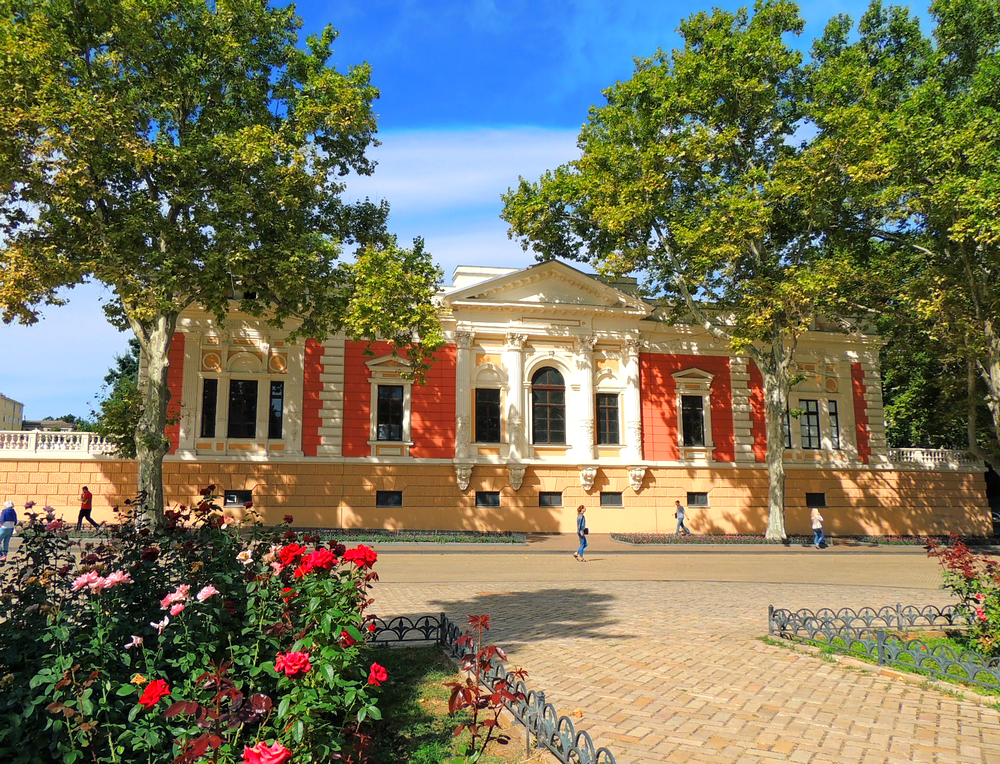 Odessa Architecture